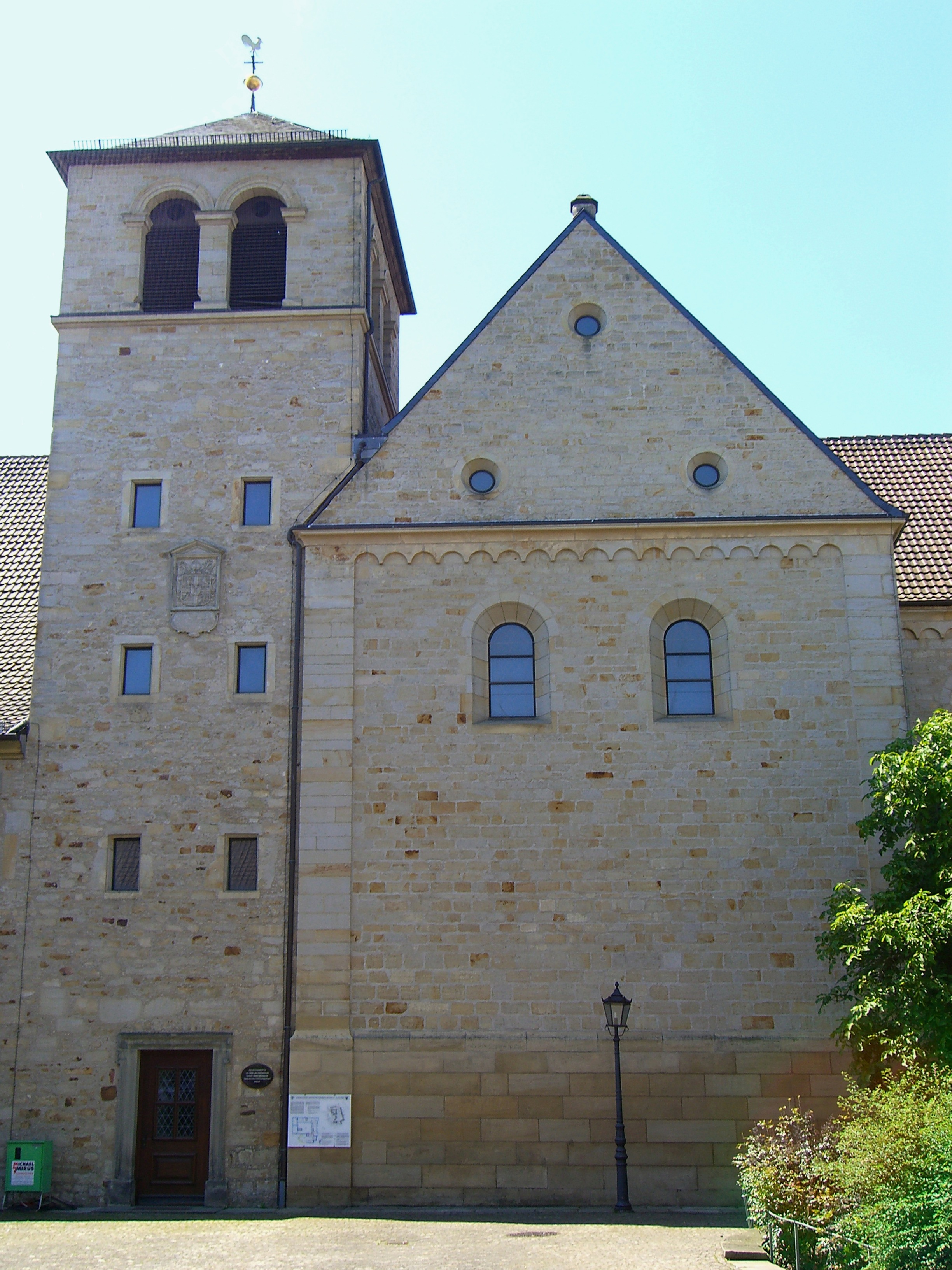 Church St. Ludgeri (est. 11th century) in Helmstedt.